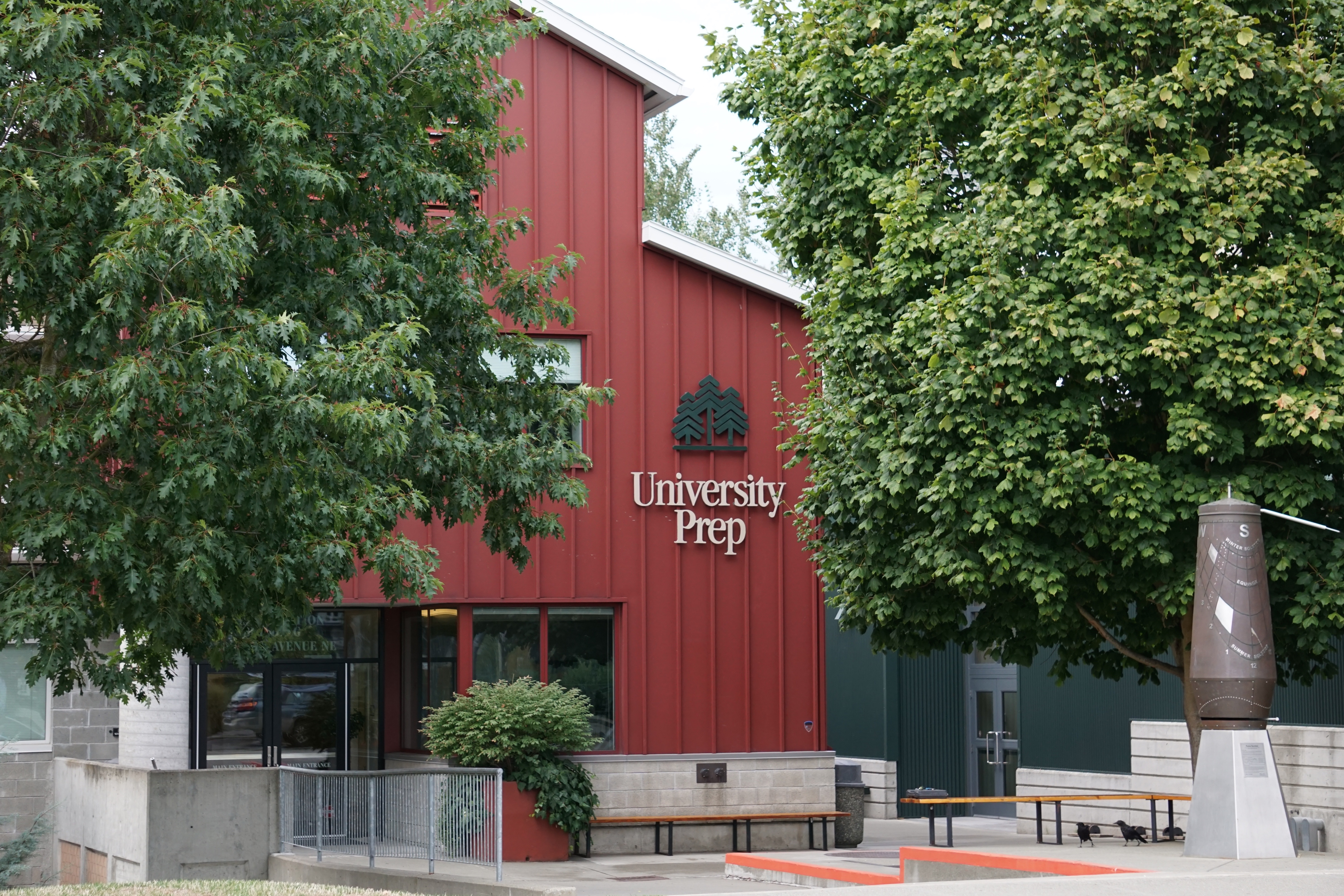 Outside of University Prep, a private school in the Wedgwood neighborhood of Seattle, Washington.